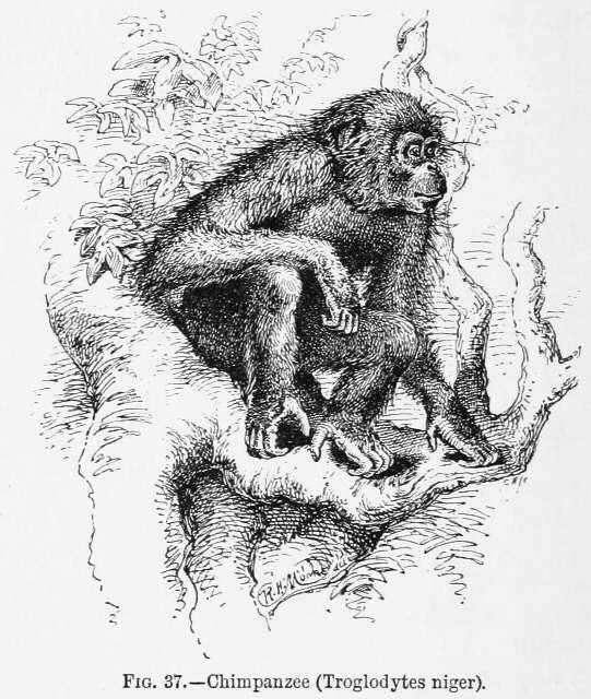 Illustraton of a Chimpanzee